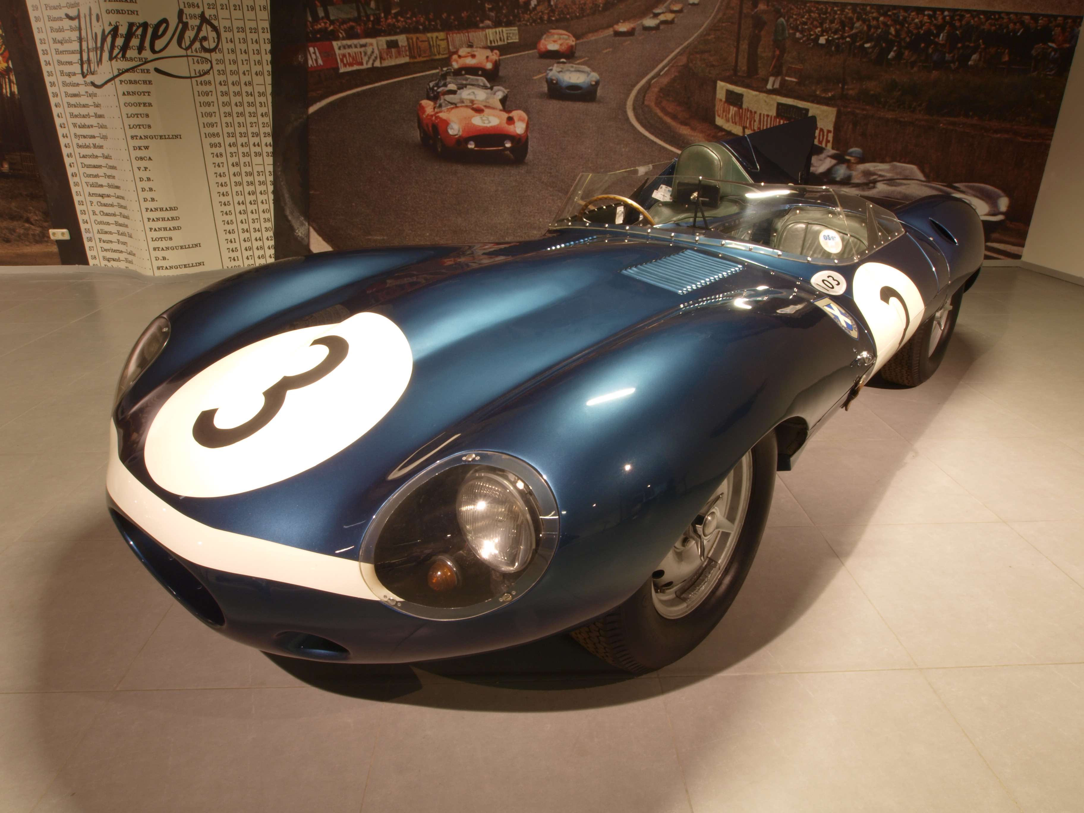 Photographed at the Louwman museum / Louwman Collection, The Netherlands.